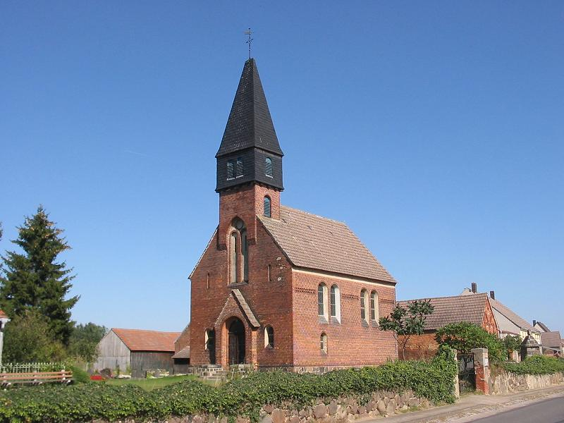 Church in Lühnsdorf. The village Lühnsdorf is a part of the town Niemegk in the district Potsdam Mittelmark, state Brandenburg, Germany. The village appertains to the natural preserve Naturpark Hoher Fläming.